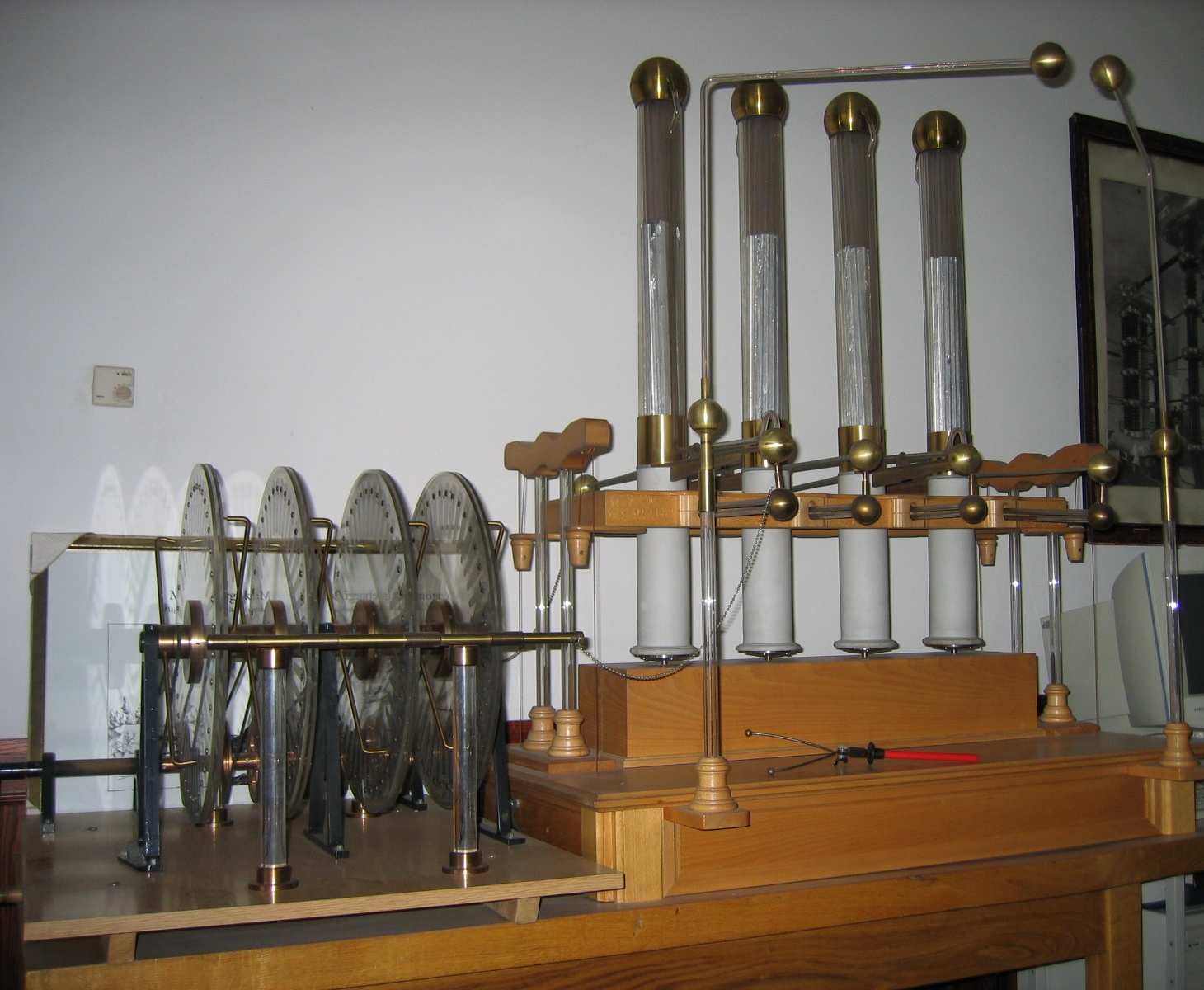 An electrostatic generator. Found in the Museum of Elektrotechnics in Budapest, Hungary